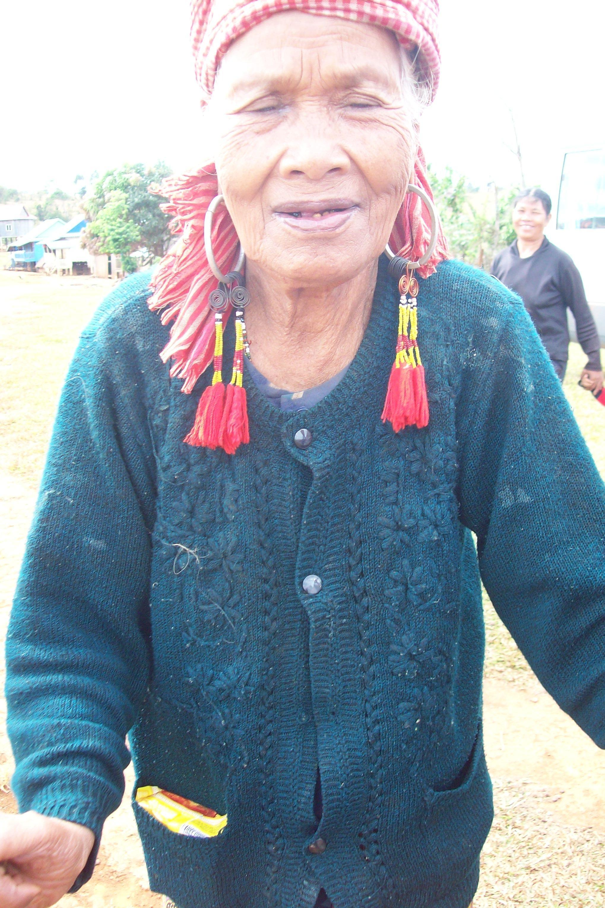 Old woman of the Pnong ethnic group